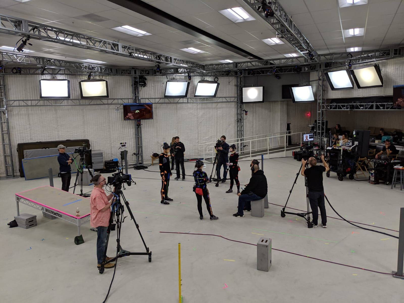 Behind-the-scenes of the motion capture process of The Last of Us Part II.